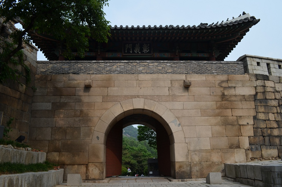 Changuimun Gate, also known as Northwest Gate or Buksomun, Seoul, South Korea. Photographed June 6, 2012.